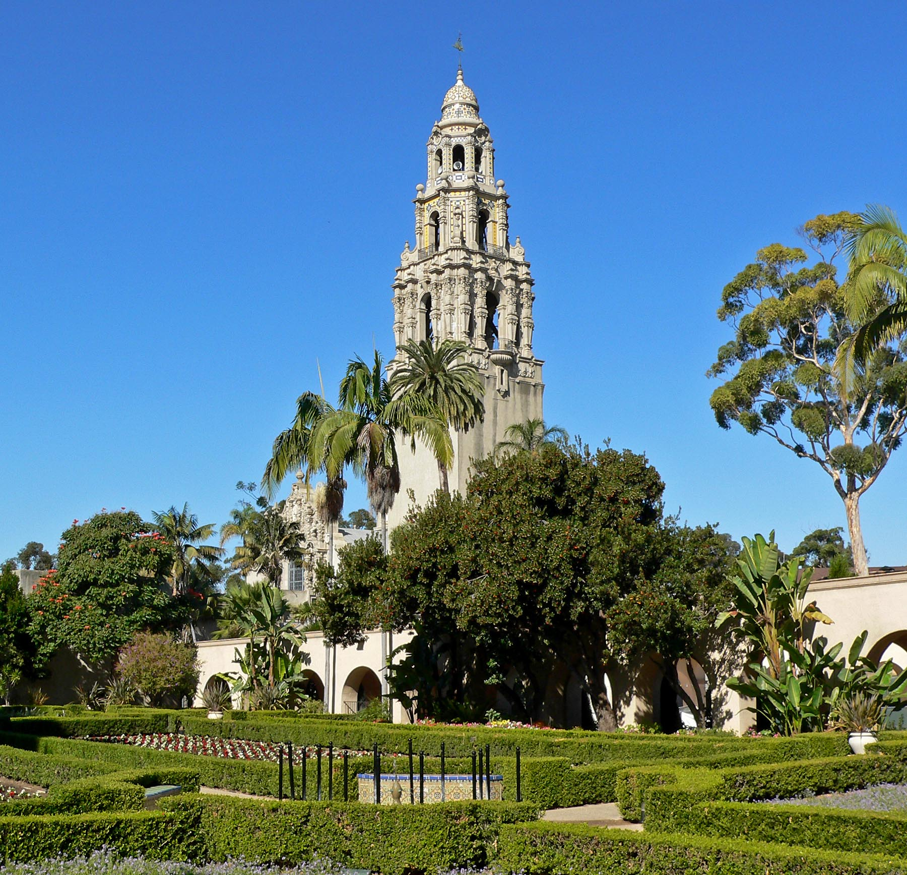 Photo of Balboa Park tower